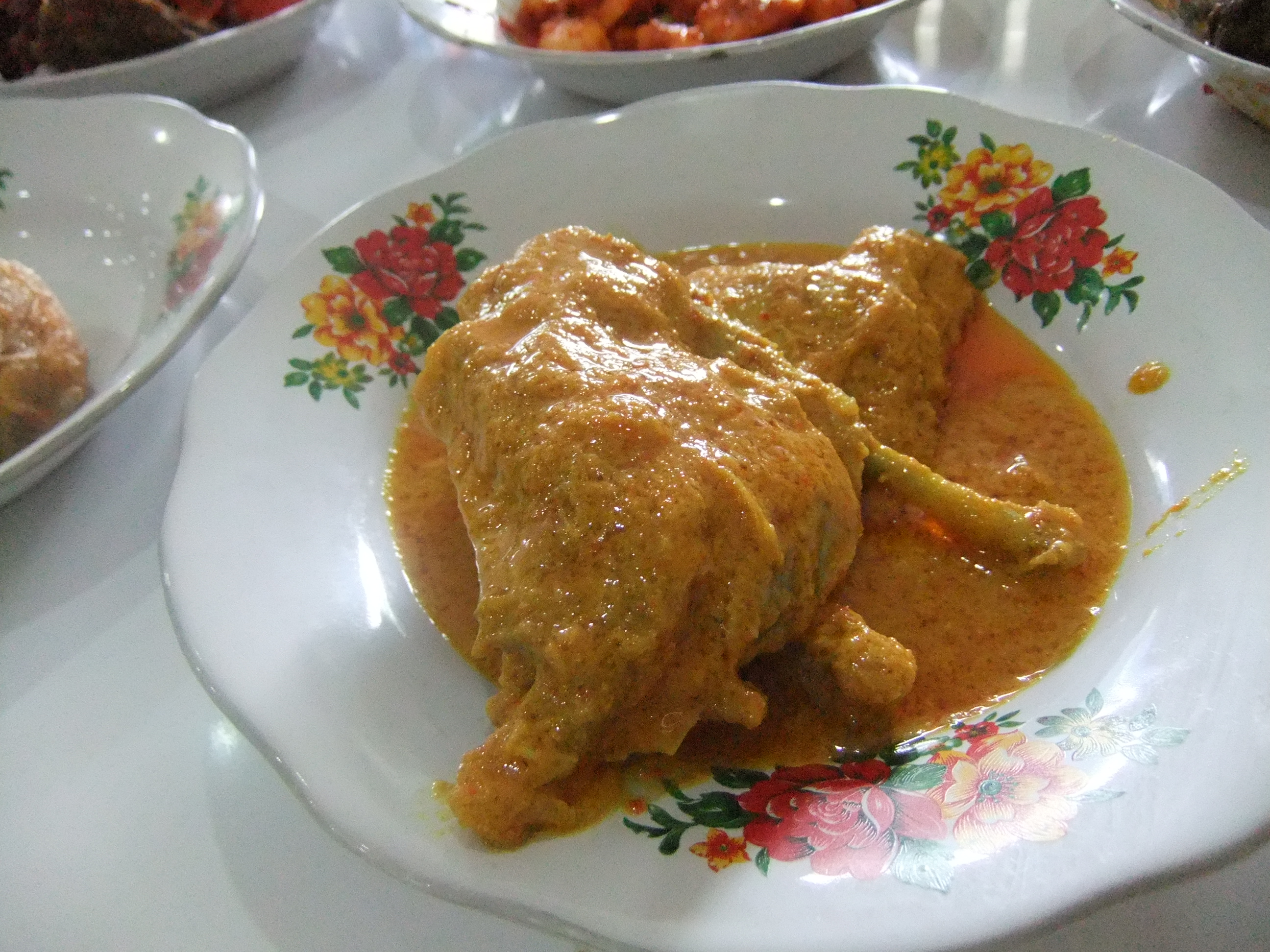 Chicken Curry, Padang Cuisine